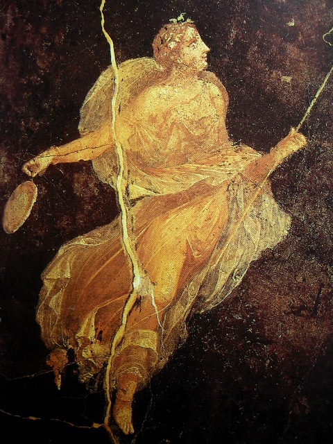 Menade (or maenad) in silk dress, a Roman fresco from the Casa del Naviglio in Pompeii, 1st century AD, Naples National Museum.